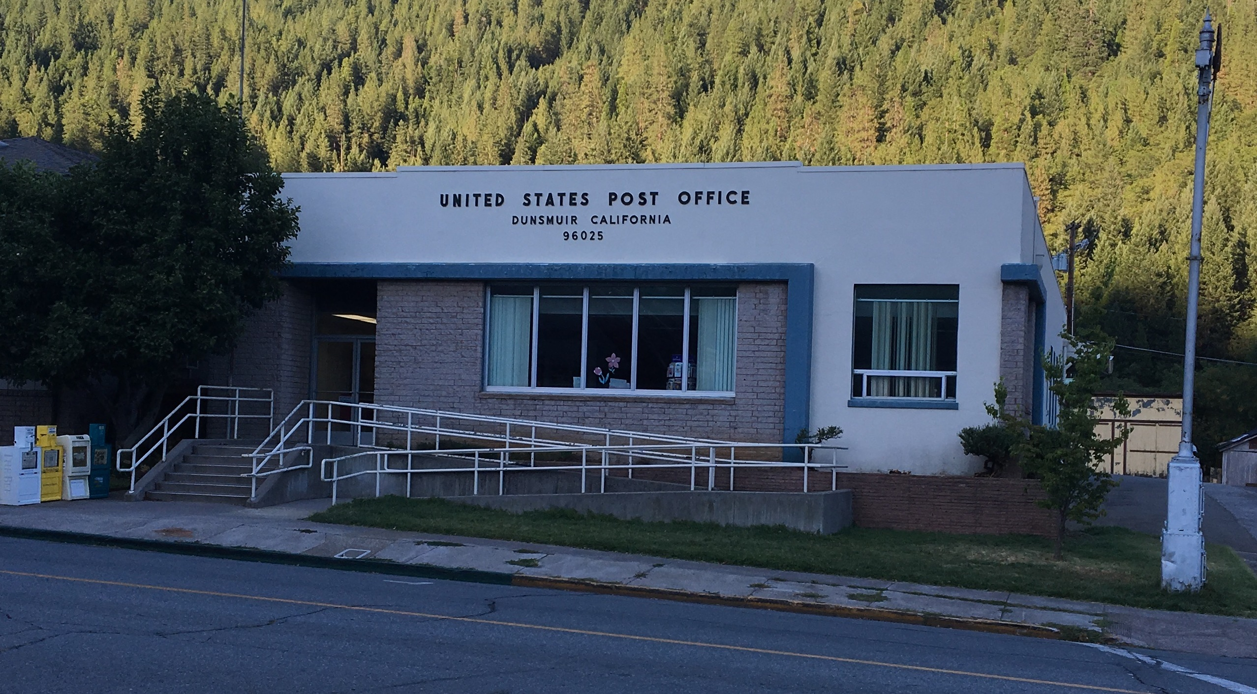 Dunsmuir, CA 2016